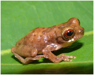 Hylidae